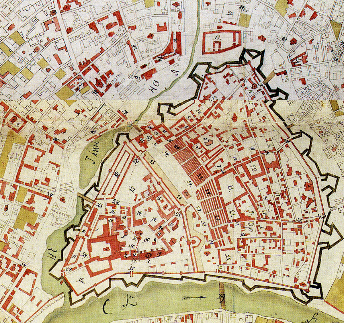 1760s map of Moscow Kremlin, Kitai-gorod and Neglinnaya river valley that would later become Central Squares.